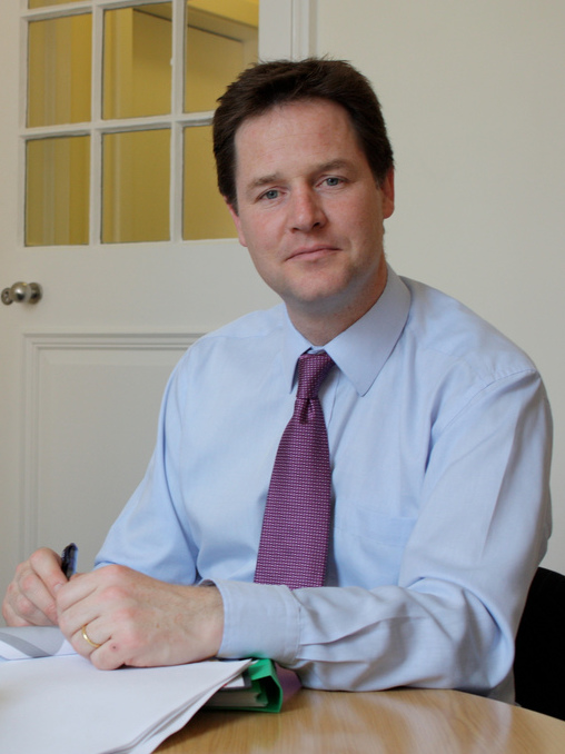 Secretary of State for Business, Innovation and Skills Vince Cable with the Deputy PM and Lord President of the Council Nick Clegg by the 2009 UK budget.